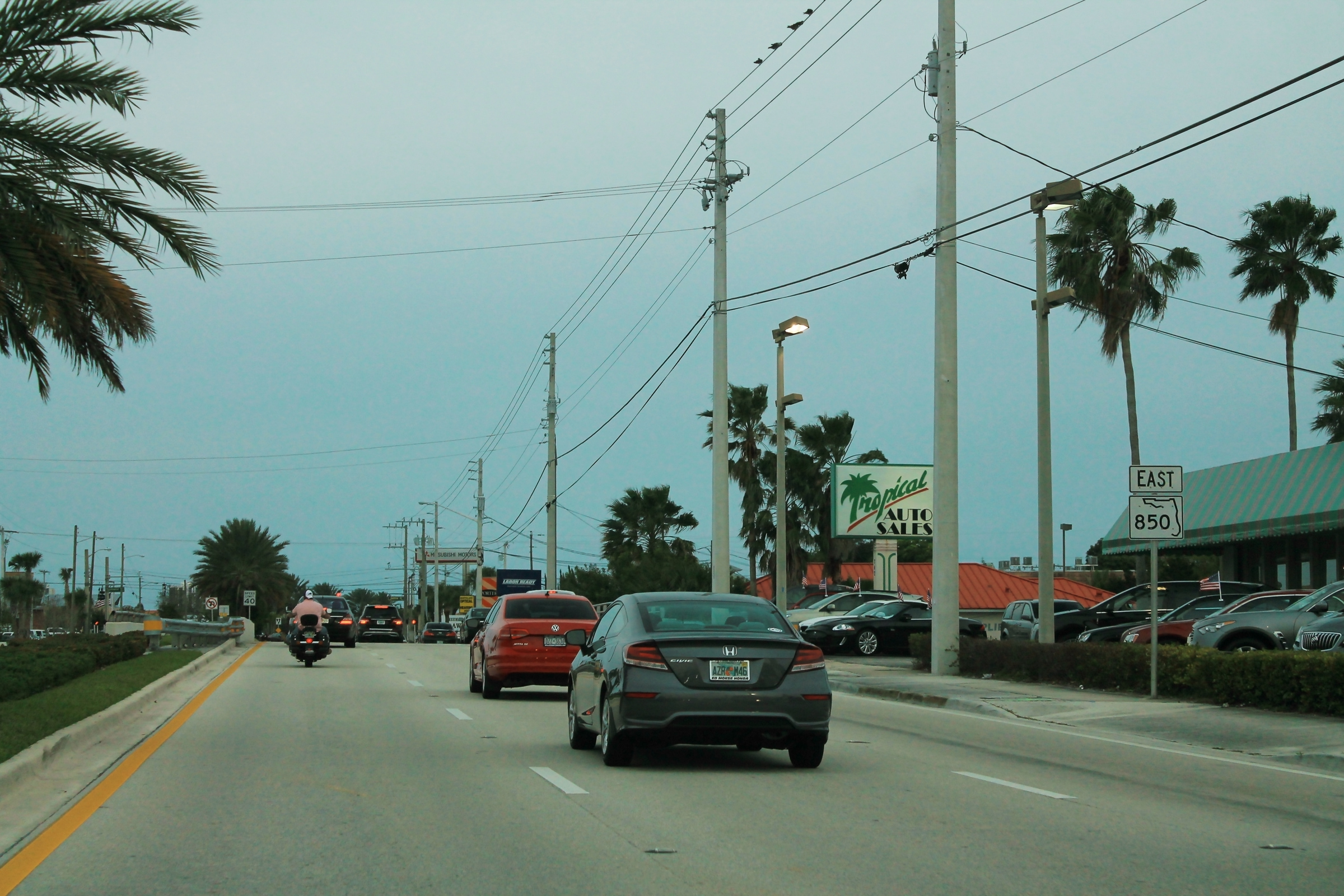 Rush hour commutes on Northlake Boulevard in Riviera Beach, Florida. Curiously, it continues on as Palm Beach County Road 809A (though still locally known as Northlake Boulevard). Perhaps because there's a counterpart Collier County Road 850 on the other coast? Doesn't really matter anymore, since Florida State Road 850 was removed from the State Road System in mid-2018.